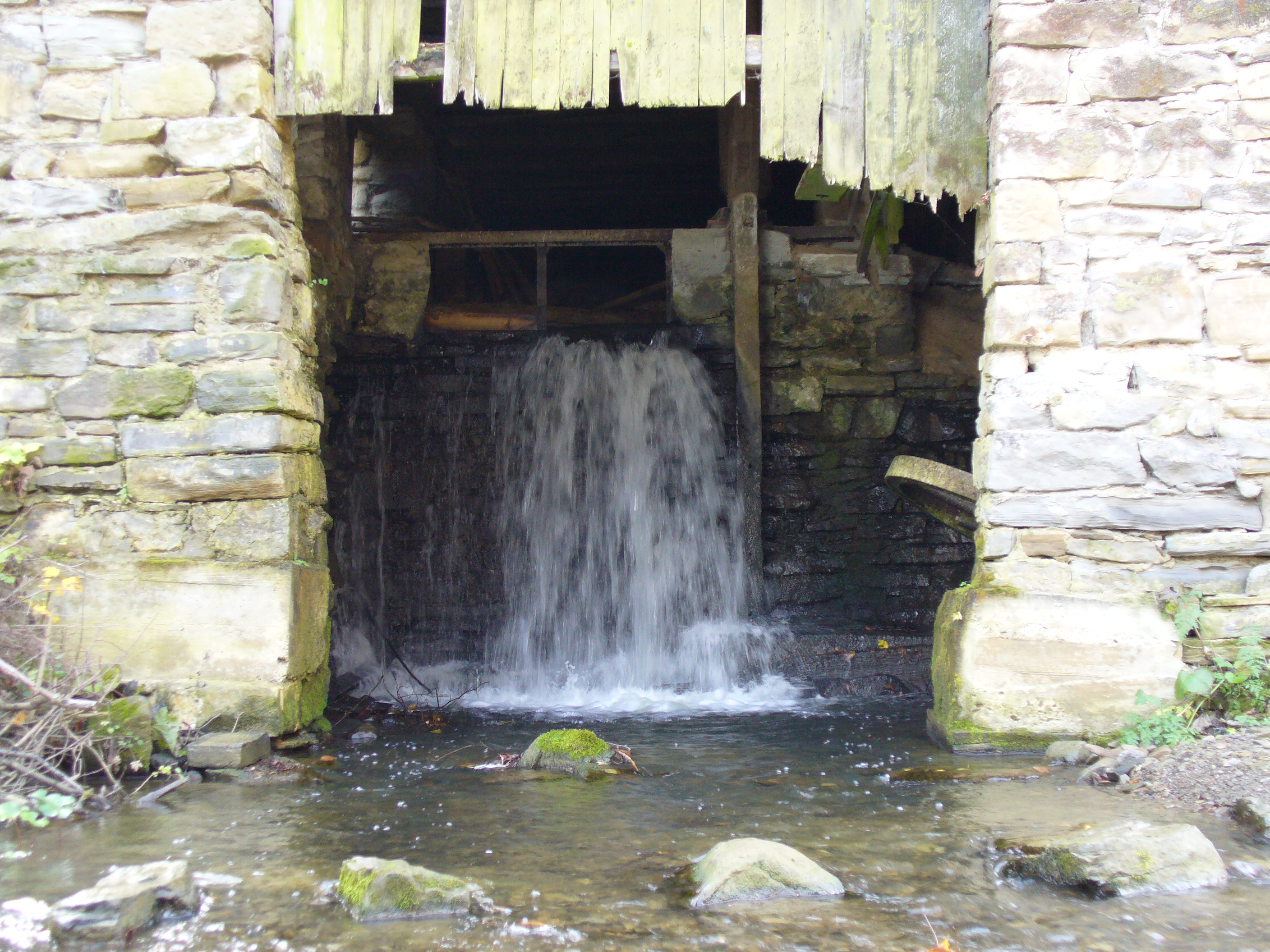 Besko